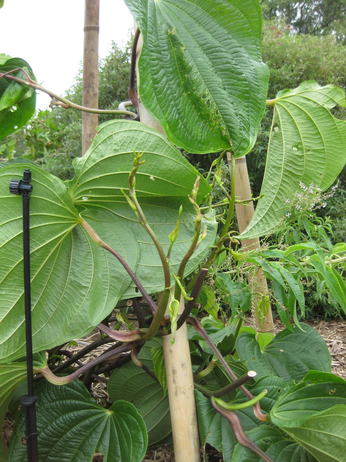 Photographed at the Royal Botanic Gardens Sydney (Australia) in January